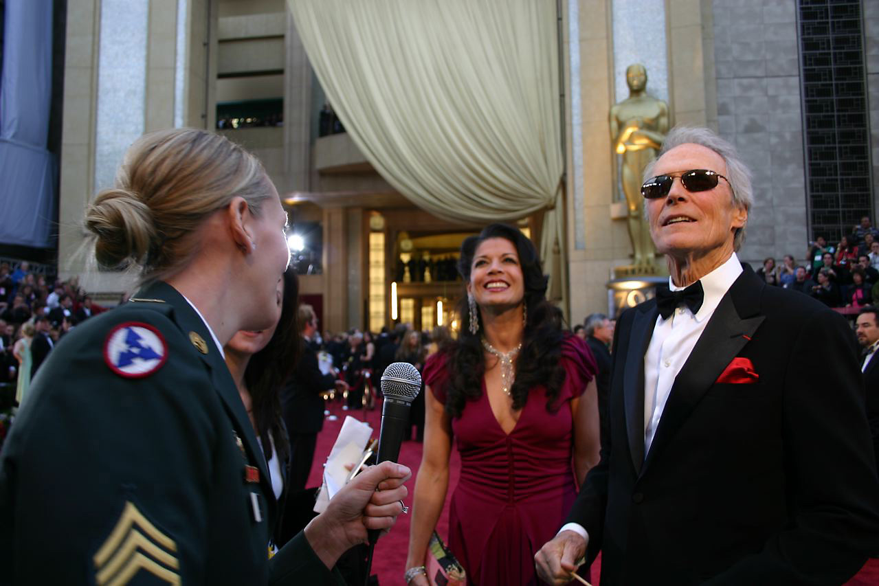 Army.mil Former Soldier and award nominee Clint Eastwood expresses his thanks to the men and women of the armed forces before the 79th Academy Awards at the Kodak Theatre in Los Angeles, Feb. 25. Other celebrities took the time to thank the Soldiers and pay tribute to their service and sacrifices.